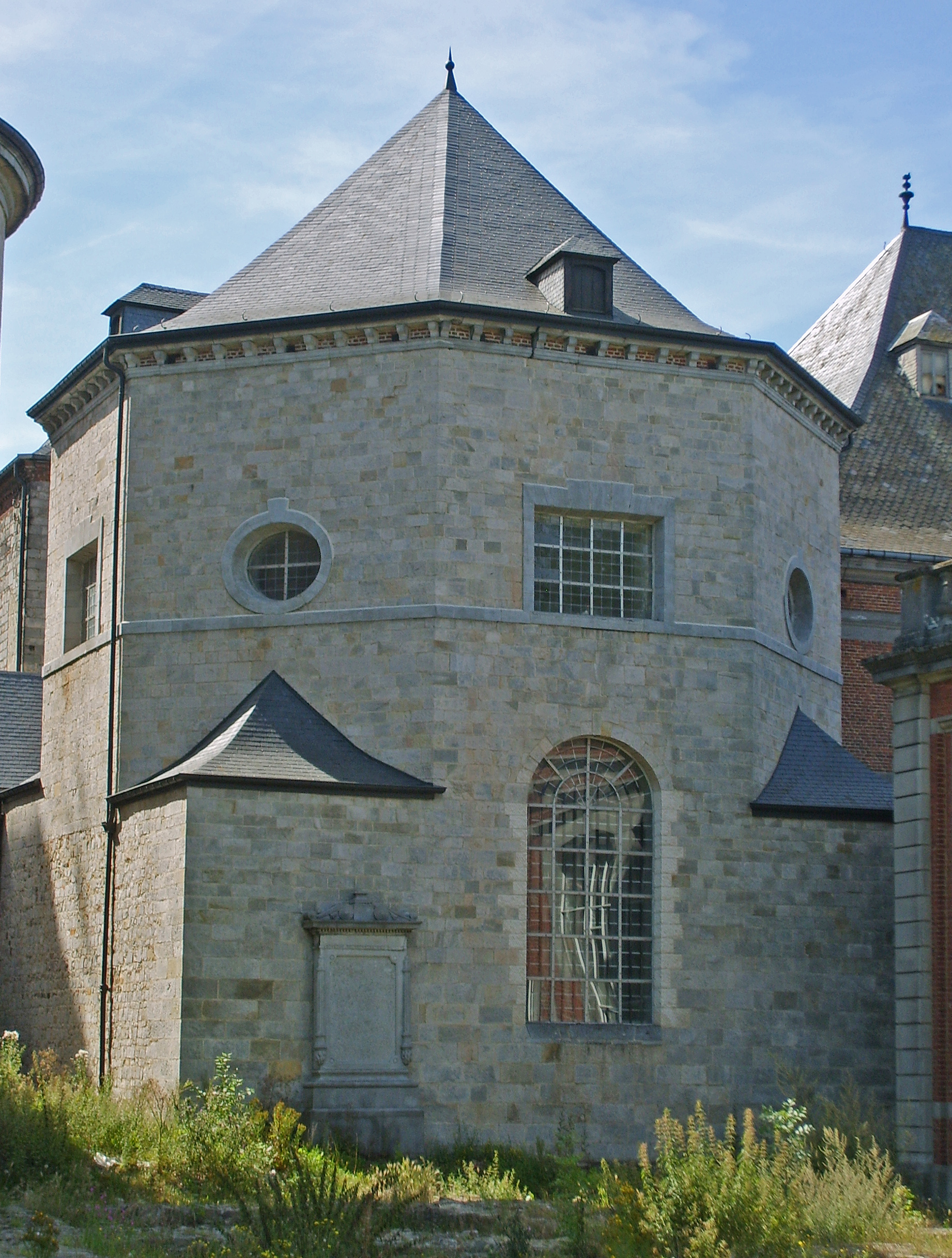 Bonne-Espérance Abbey, Vellereille-les-Brayeux (Belgium), sacristy of Notre-Dame de Bonne-Espérance basilica (literally Our Lady of Good Hope), neoclassic abbey church (1776) designed by Laurent-Benoît Dewez.